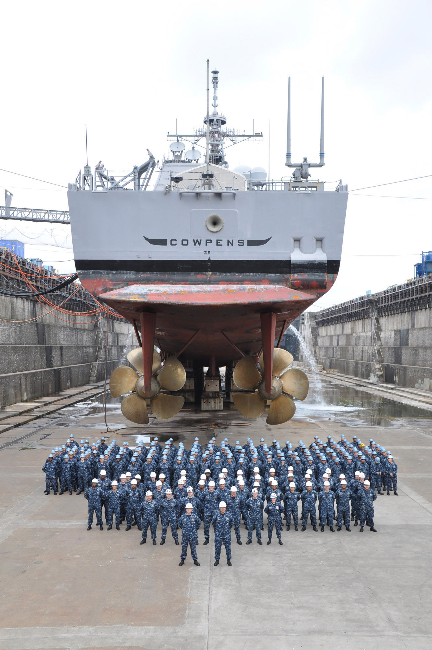 YOKOSUKA, Japan (July 6, 2010) The officers and crew of the guided-missile cruiser USS Cowpens (CG 63) pose for a group photo under the ship at Fleet Activities Yokosuka's dry dock six. (U.S. Navy photo/Released)